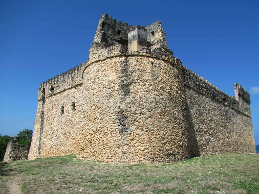 The Gereza Kilwa Fort on Kilwa Kisiwani Island, Tanzania, was originally built by the Portuguese in the early 16th century to control trade in gold, ivory, and slaves.